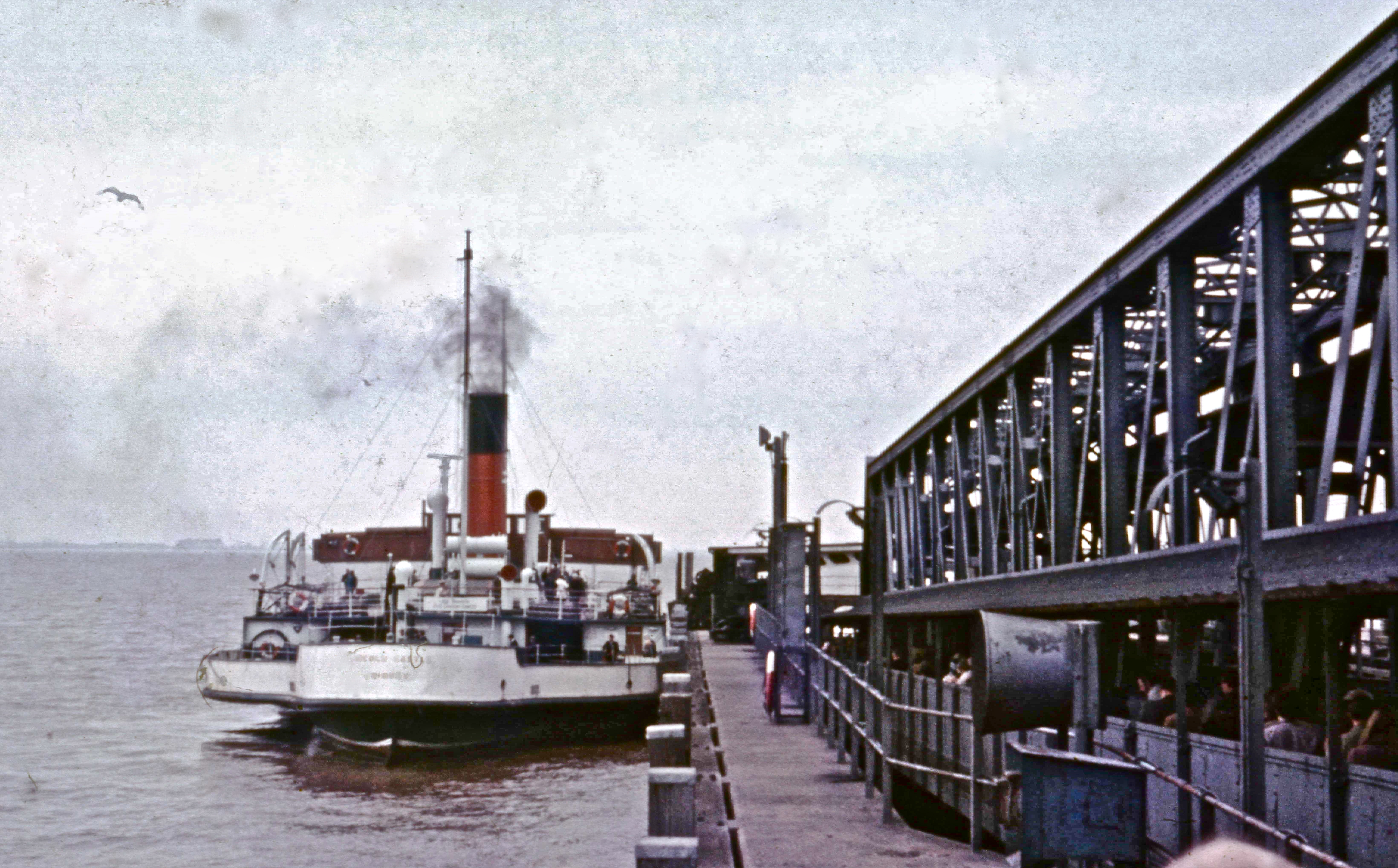 PS Lincoln Castle at New Holland Pier with Yorkshire coast in background